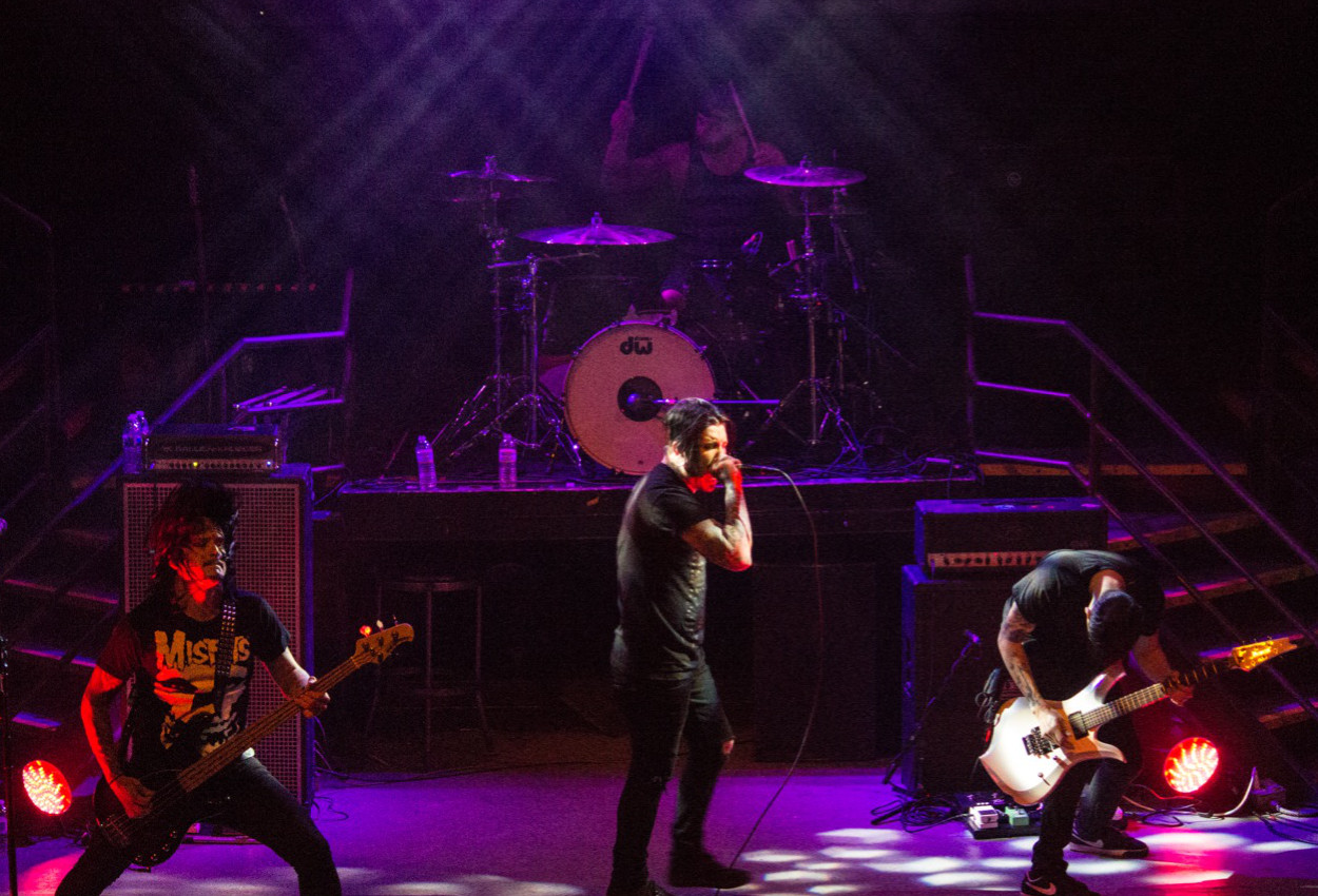 The Dead Rabbitts performing live at ShapeshifTour 2014